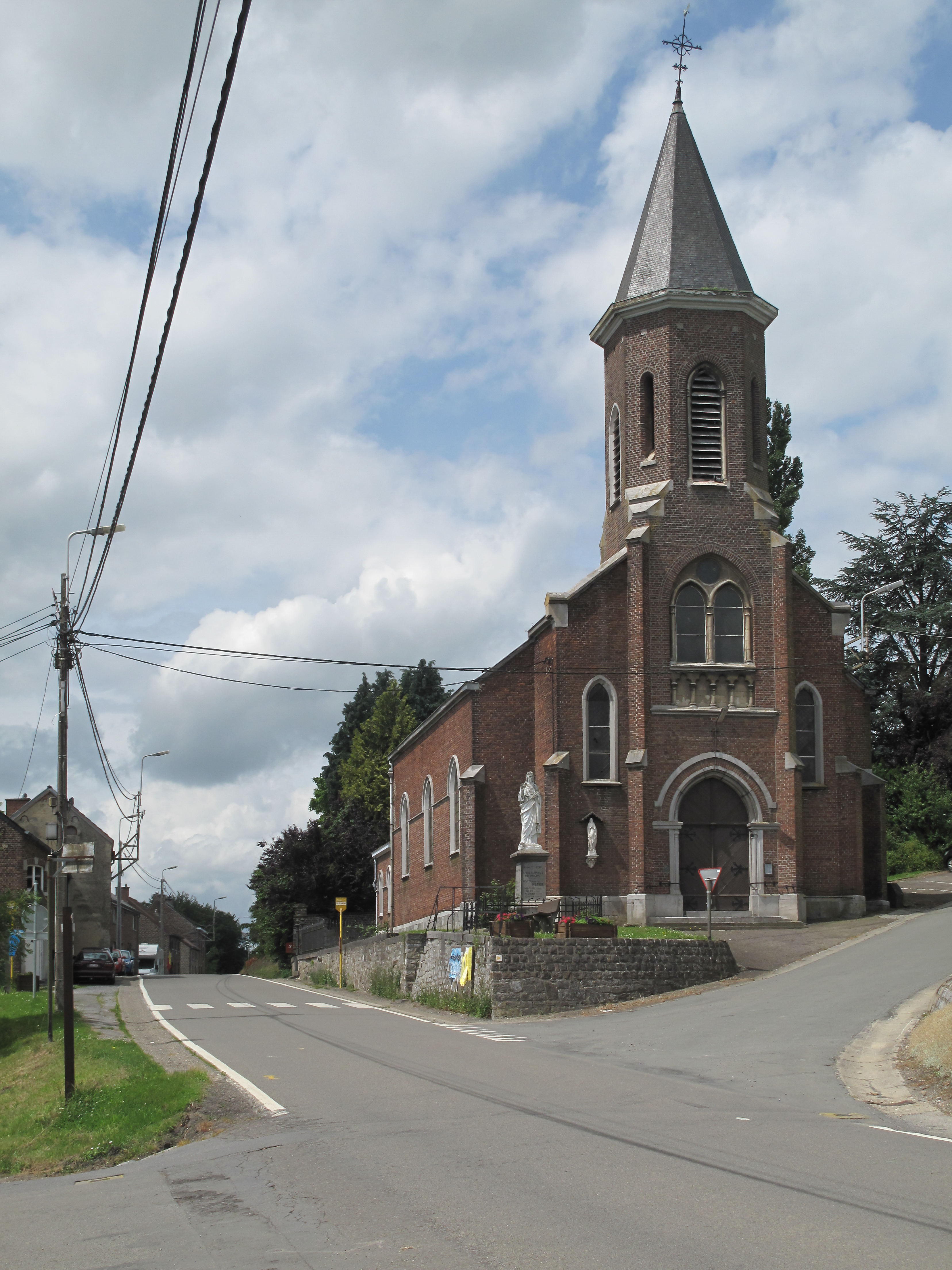 Lamontzée, church: église Saint Maurice